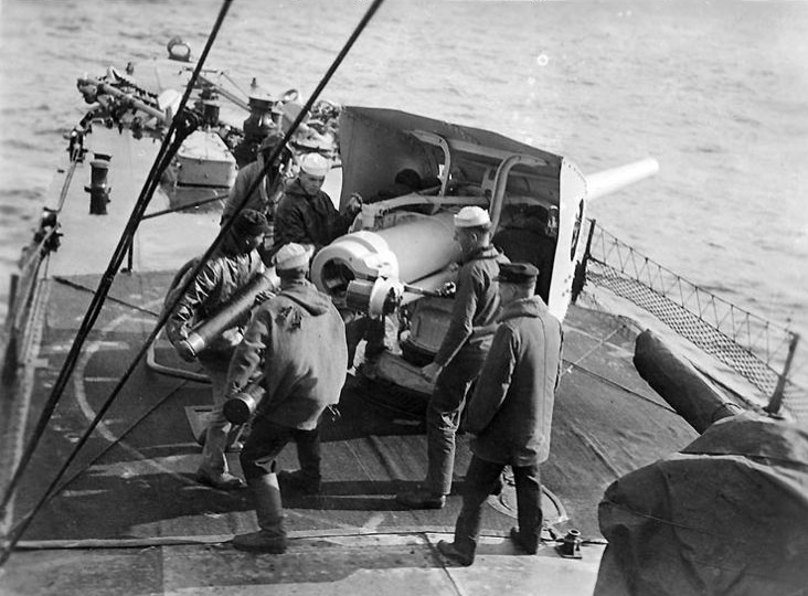 "USS Little (Destroyer # 79). Gun crew practicing with the ship's forward 4"/50 gun, in the Atlantic, 23 October 1918. The ammunition appears to be wooden drill rounds".